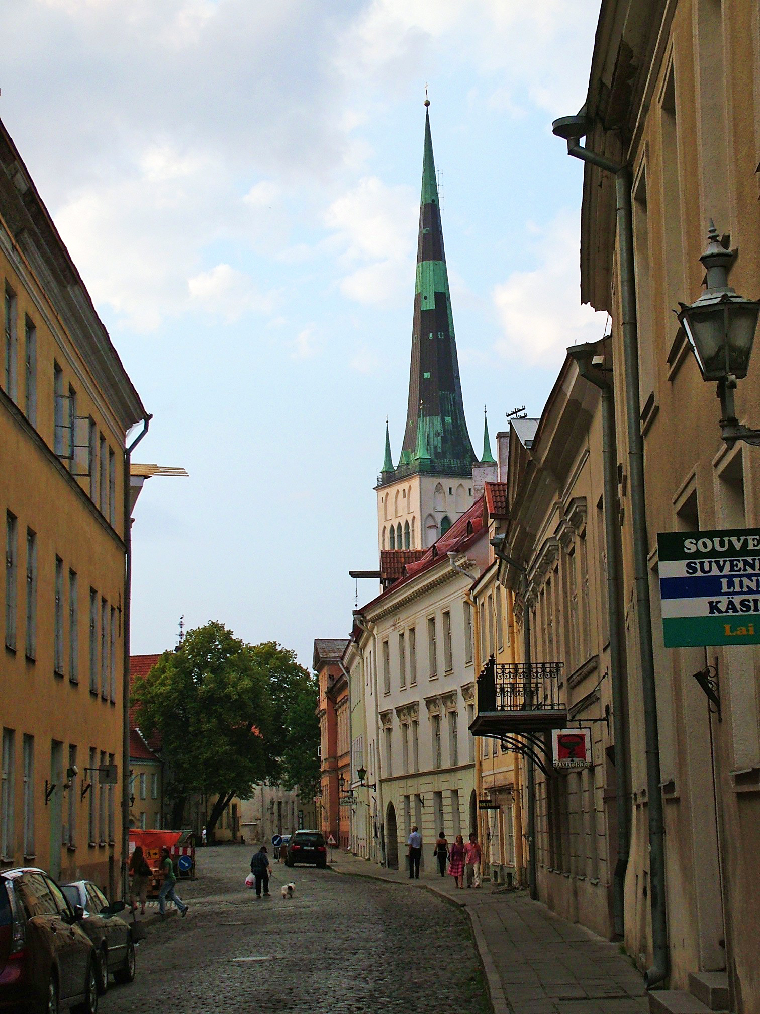 Street in Tallinn, Estonia.